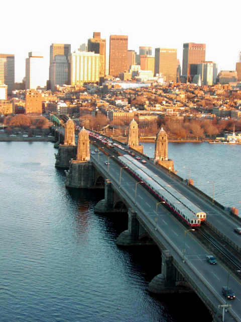 Red Line trains meet on Longfellow Bridge in Boston